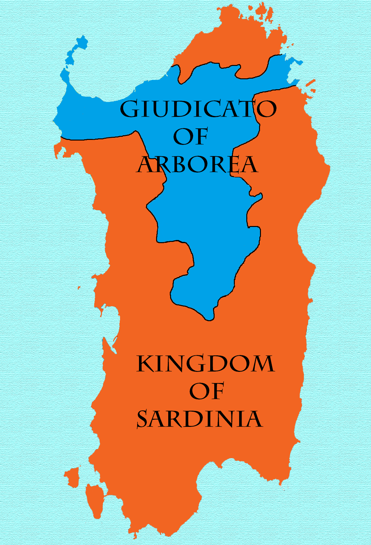 Territory of the Kingdom of Sardinia from 1410 and 1420